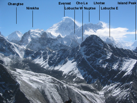 Views towards Nirekha peak and its prominent neighbors. Location of the camera on Gokyo Ri.